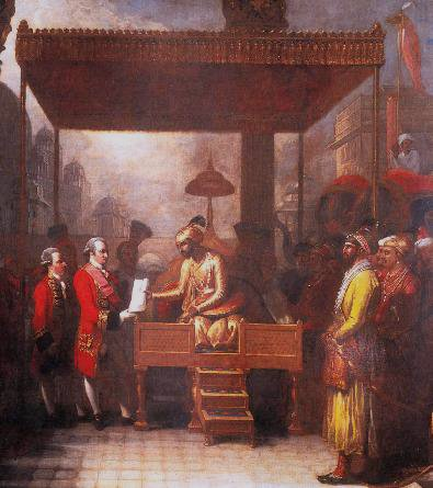 Clive receiving Diwani from Mughal emperor Shah Alam II.